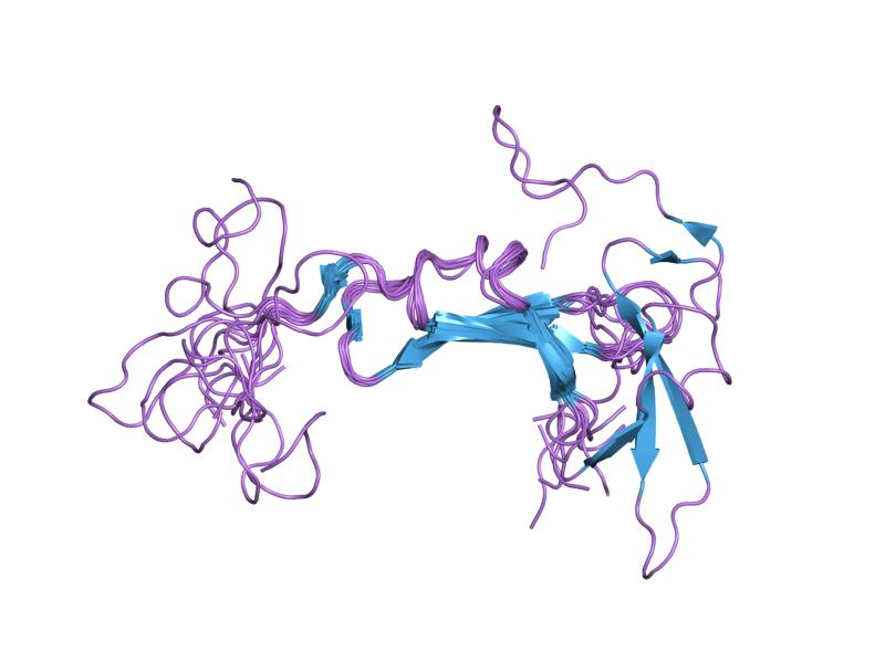 Cartoon representation of the molecular structure of protein registered with 1hrf code.